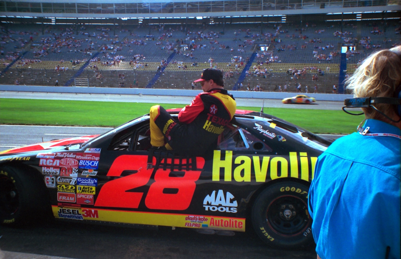 Retired NASCAR driver Ernie Irvan existing his racecar in 1996.